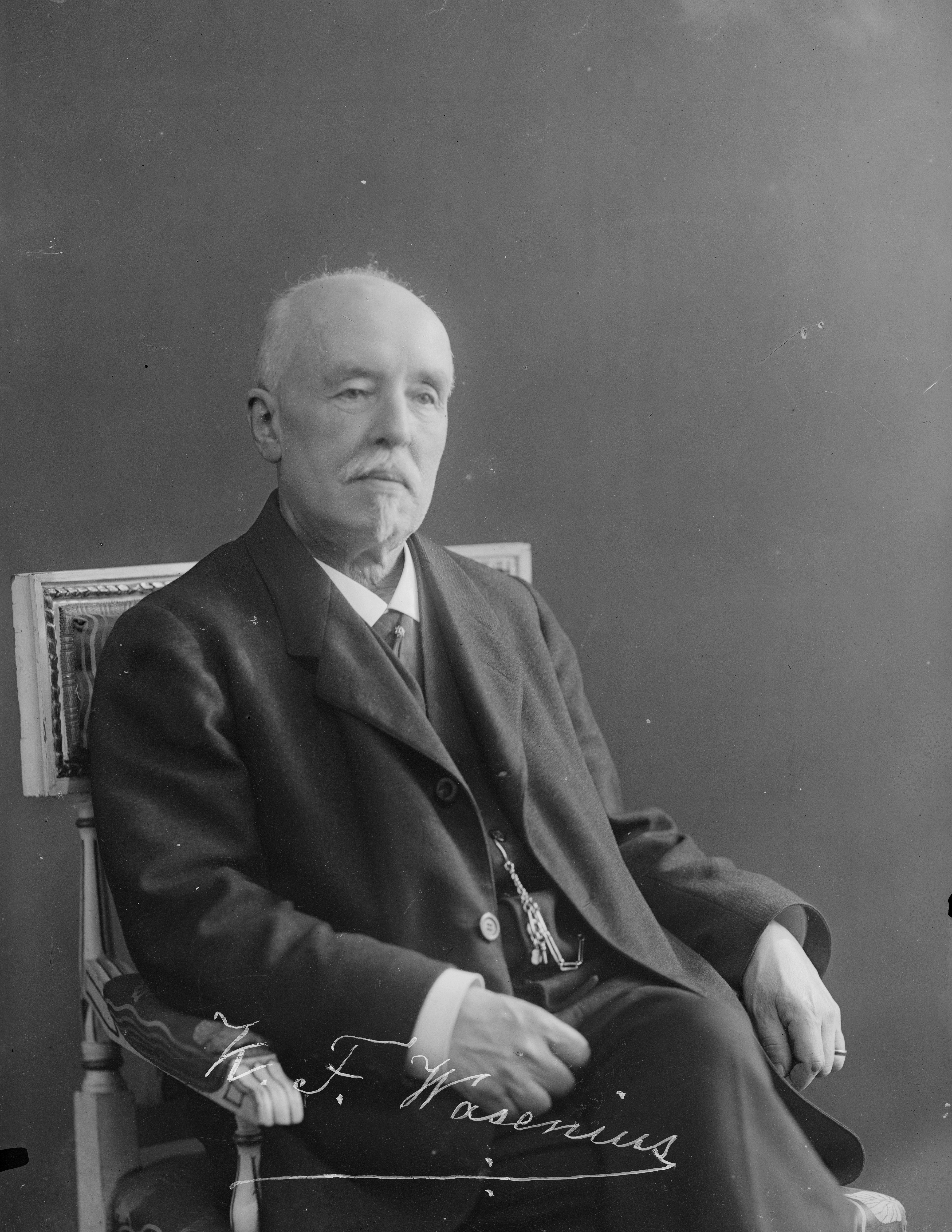 Photograph of the Finnish music critic Karl Fredrik Wasenius alias Bis (1850–1920).